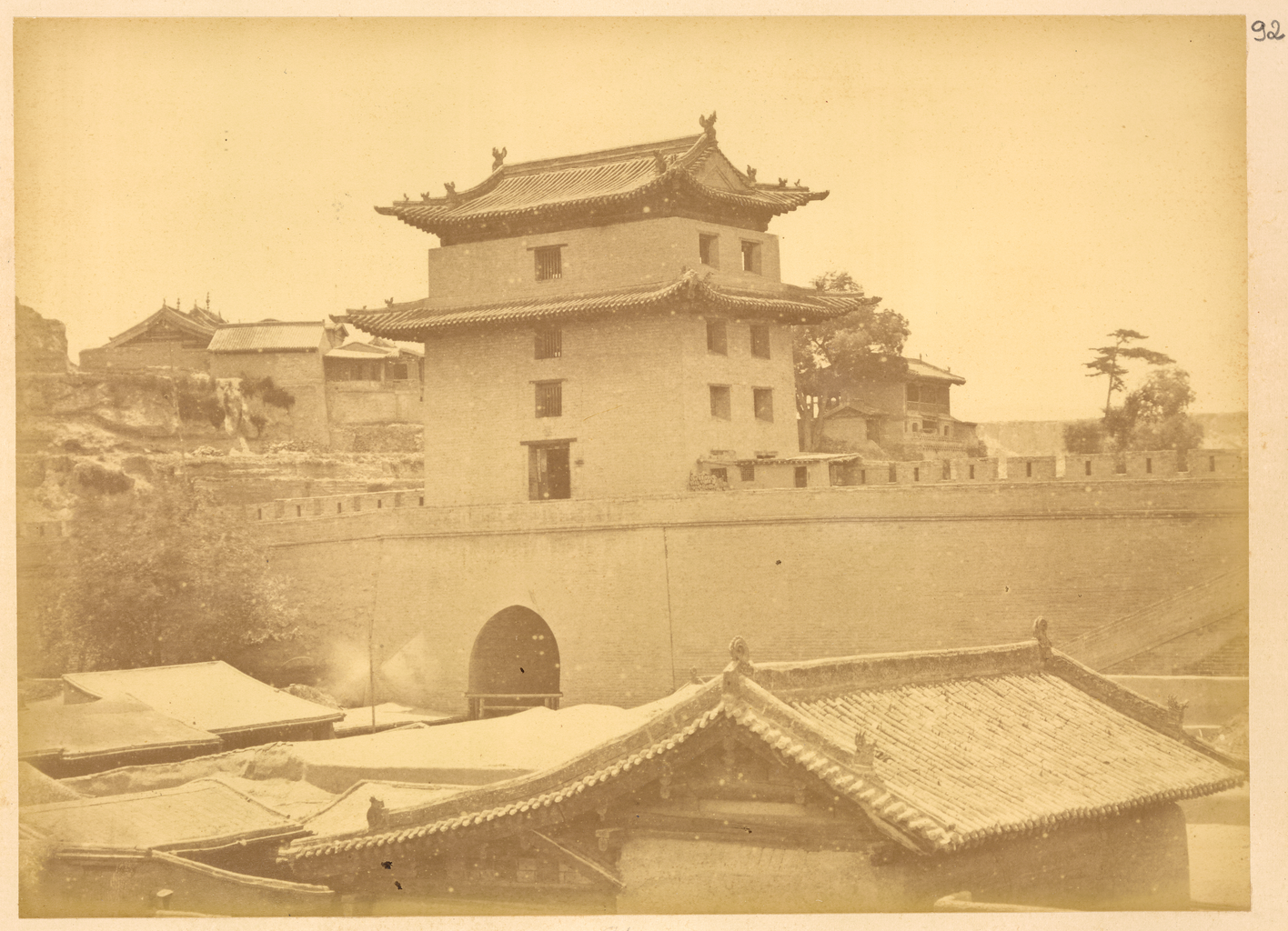 In 1874-75, the Russian government sent a research and trading mission to China to seek out new overland routes to the Chinese market, report on prospects for increased commerce and locations for consulates and factories, and gather information about the Dungan Revolt then raging in parts of western China. Led by Lieutenant Colonel Iulian A. Sosnovskii of the army General Staff, the nine-man mission included a topographer, Captain Matusovskii; a scientific officer, Dr. Pavel Iakovlevich Piasetskii; Chinese and Russian interpreters; three non-commissioned Cossack soldiers; and the mission photographer, Adolf Erazmovich Boiarskii. The mission proceeded from Saint Petersburg to Shanghai via Ulan Bator (Mongolia), Beijing, and Tianjin, and then followed a route along the Yangtze River, along the Great Silk Road through the Hami oasis, to Lake Zaysan, back to Russia. Boiarskii took some 200 photographs, which constitute a unique resource for the study of China in this period. Most of the photographs are included in this album, which later became part of the Thereza Christina Maria Collection assembled by Emperor Pedro II of Brazil and given by him to the National Library of Brazil. Cities and towns; City walls; Forts and fortifications; Gatehouses; Memory of the World; Towers